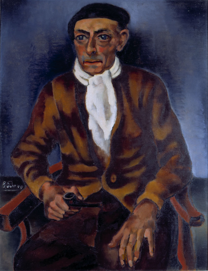 Portrait of the artist's husband Mommie Schwarz